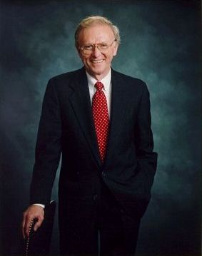 The late Senator Paul D. Coverdell(R-GA)